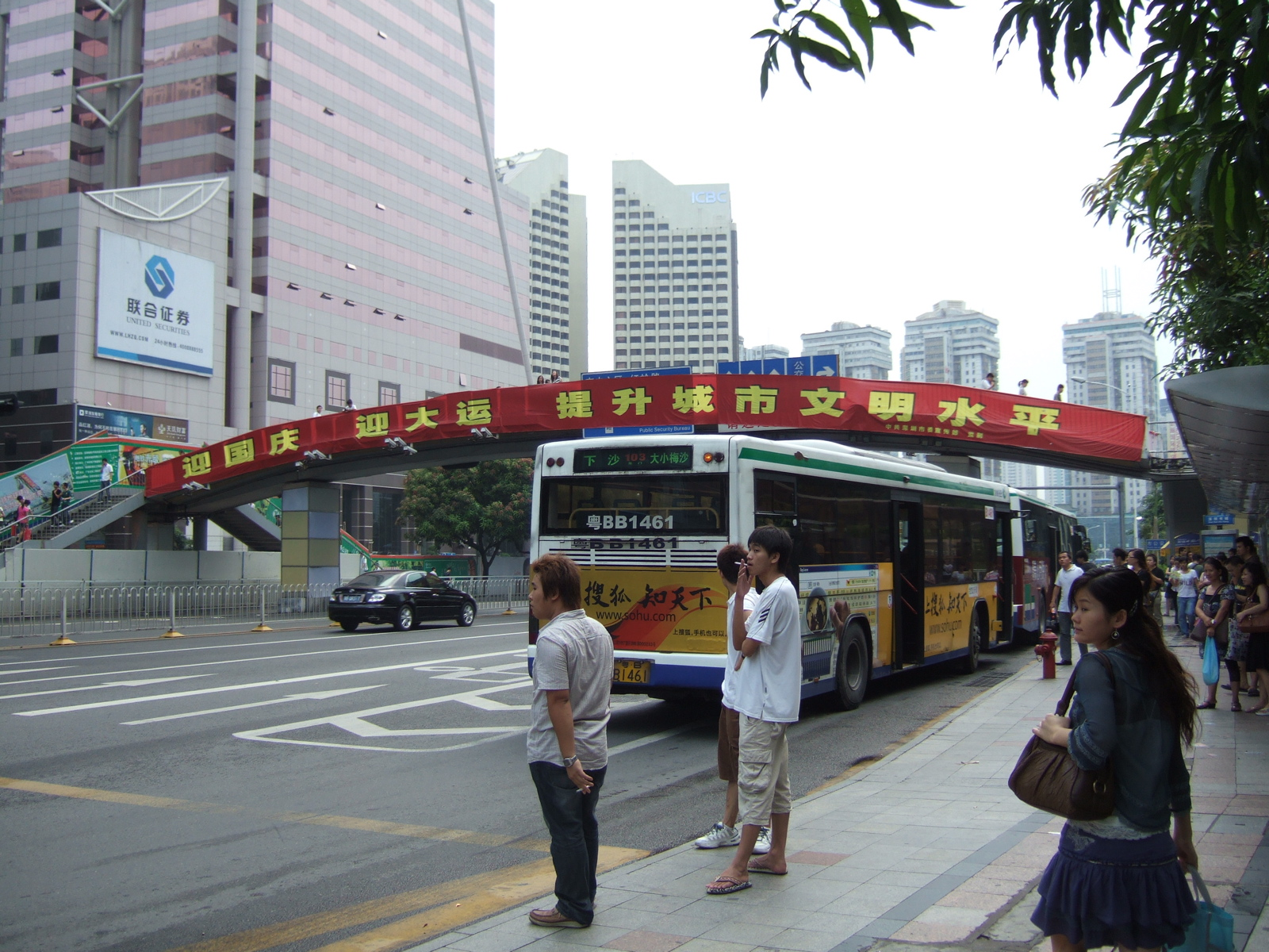 prominent banner for the 60th anniversary of the founding of the People's Republic of China